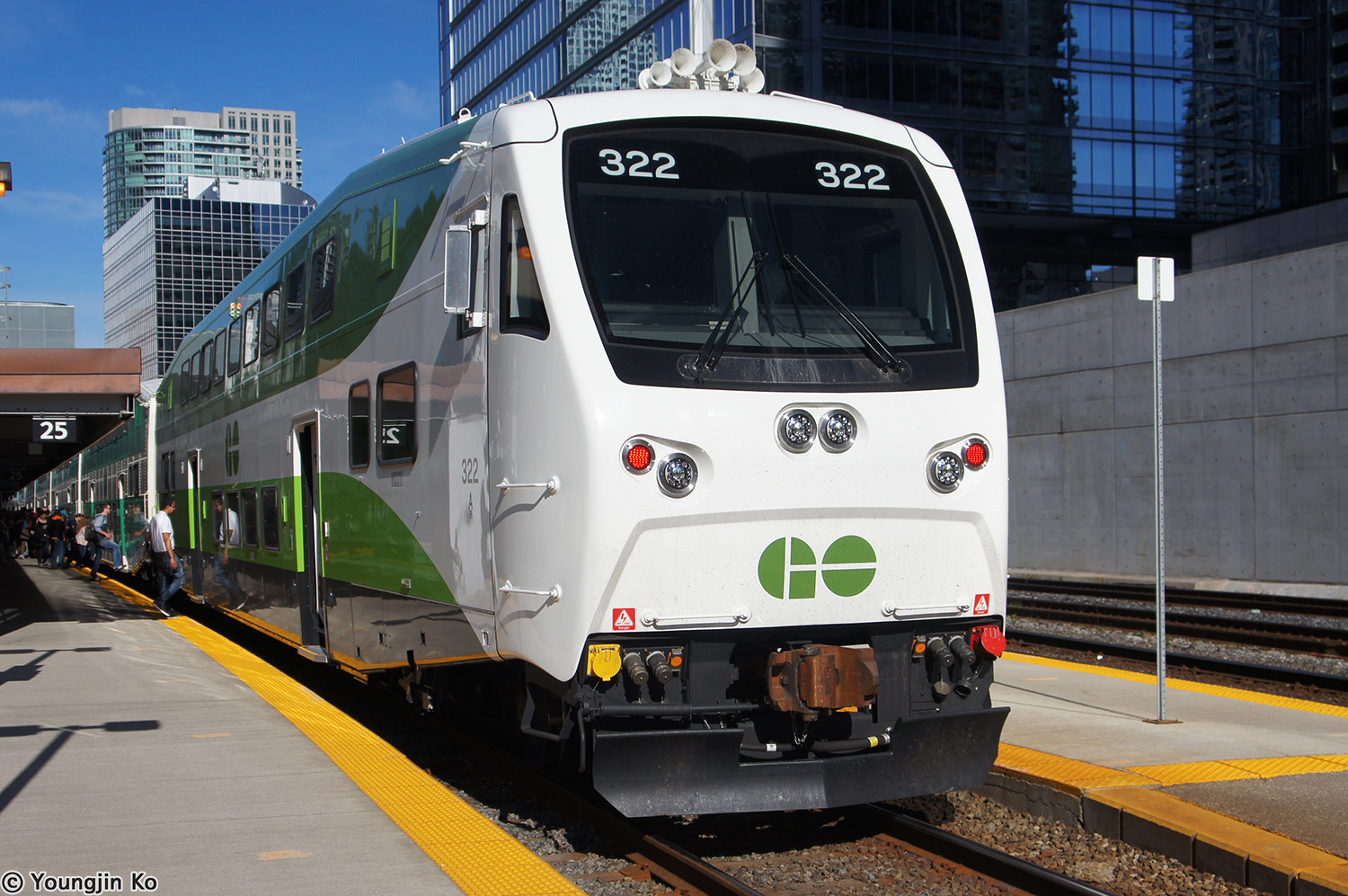 GO Transit Bombardier Bilevel CEM cab car #322 has been seen at Union Station.